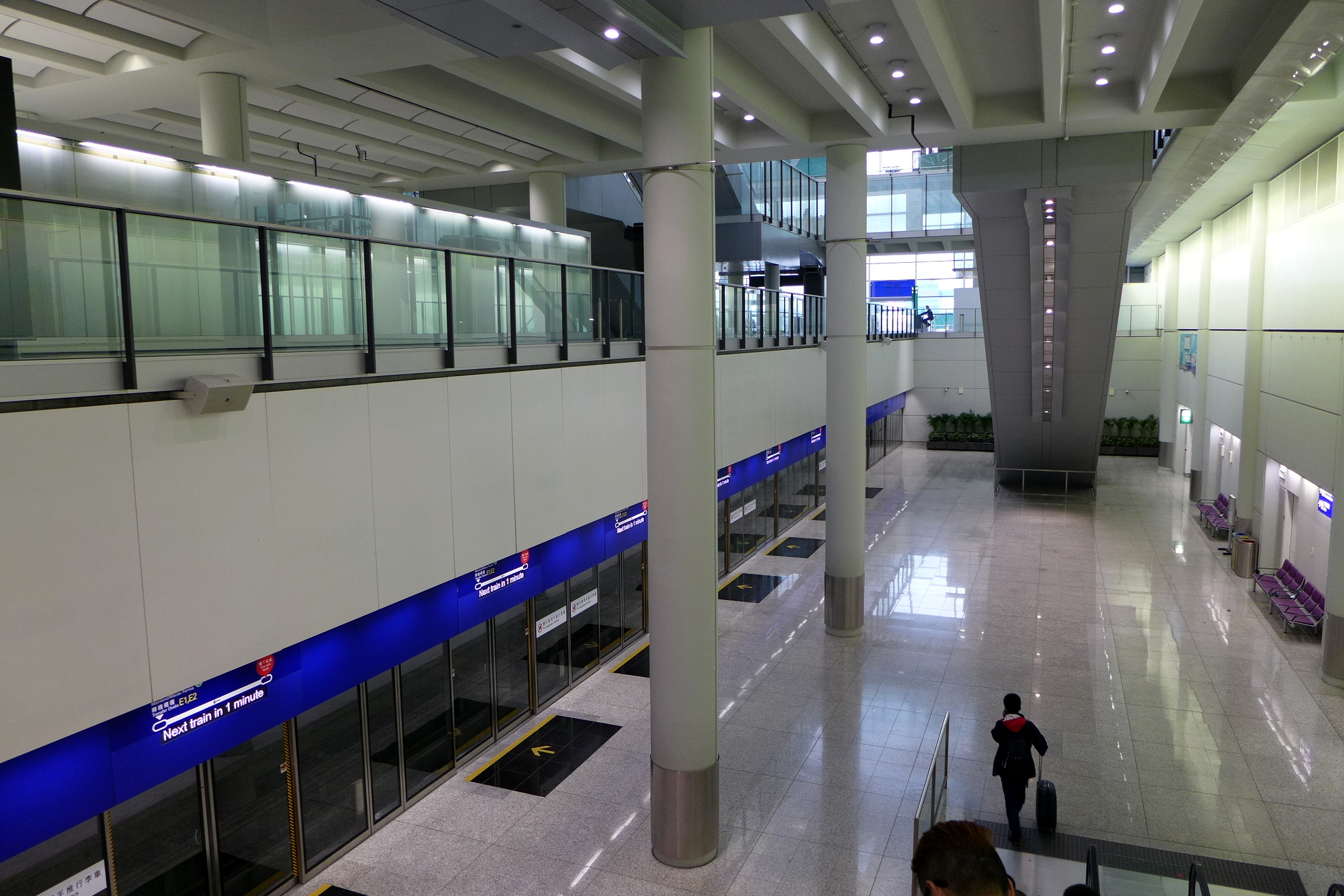 Hong Kong International Airport Automated People Mover Platform